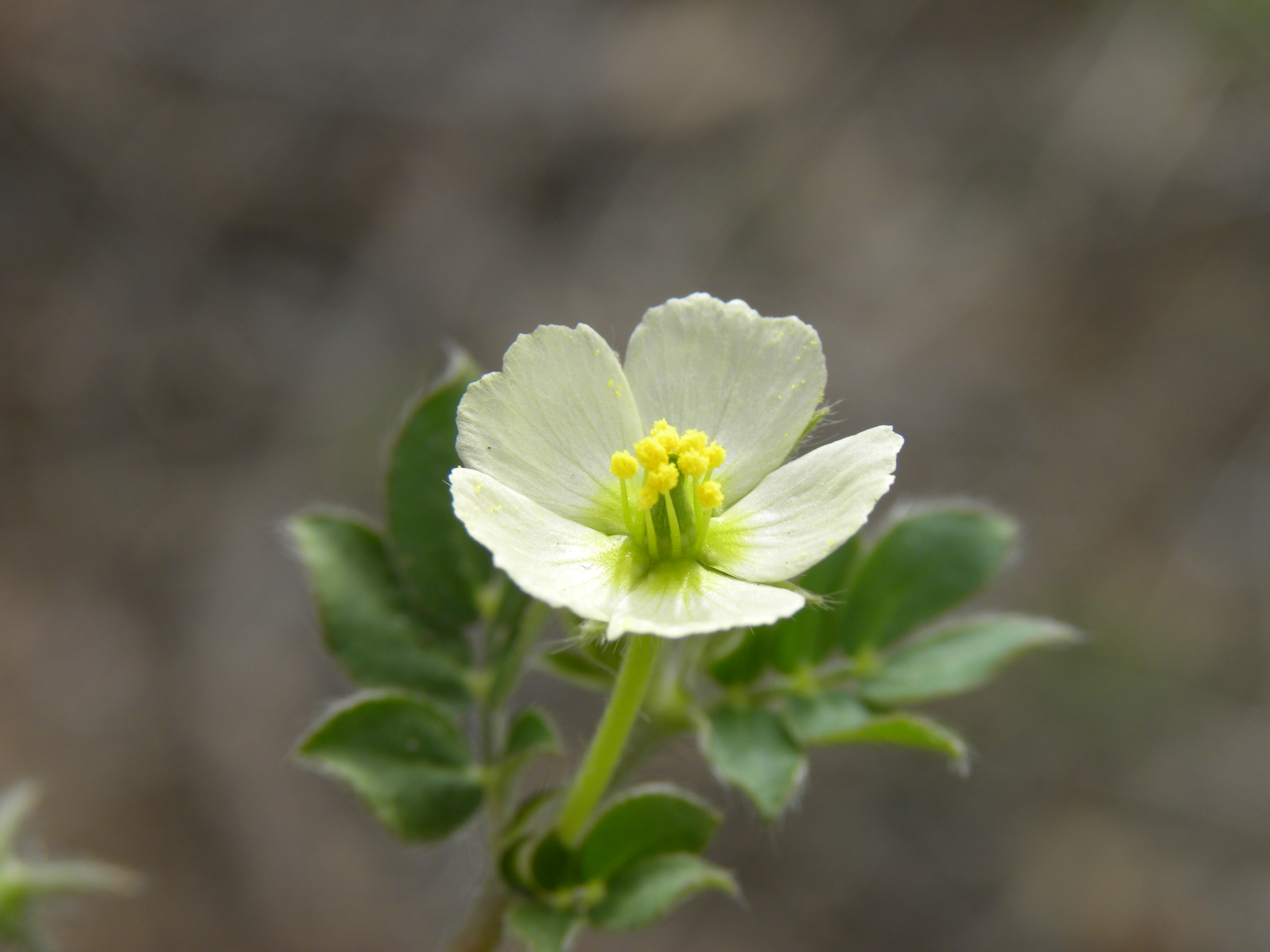 Kallstroemia pubescens growing by the Pan-American Highway in Guanacaste, Costa Rica.